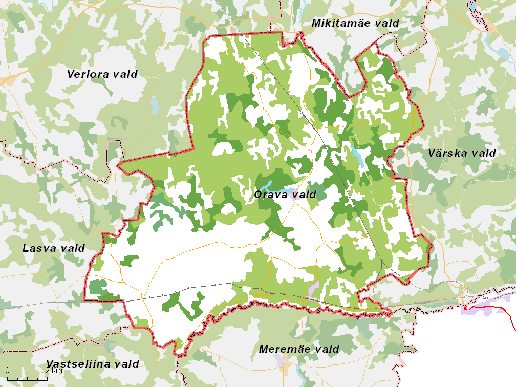 Map of municipality in Estonia